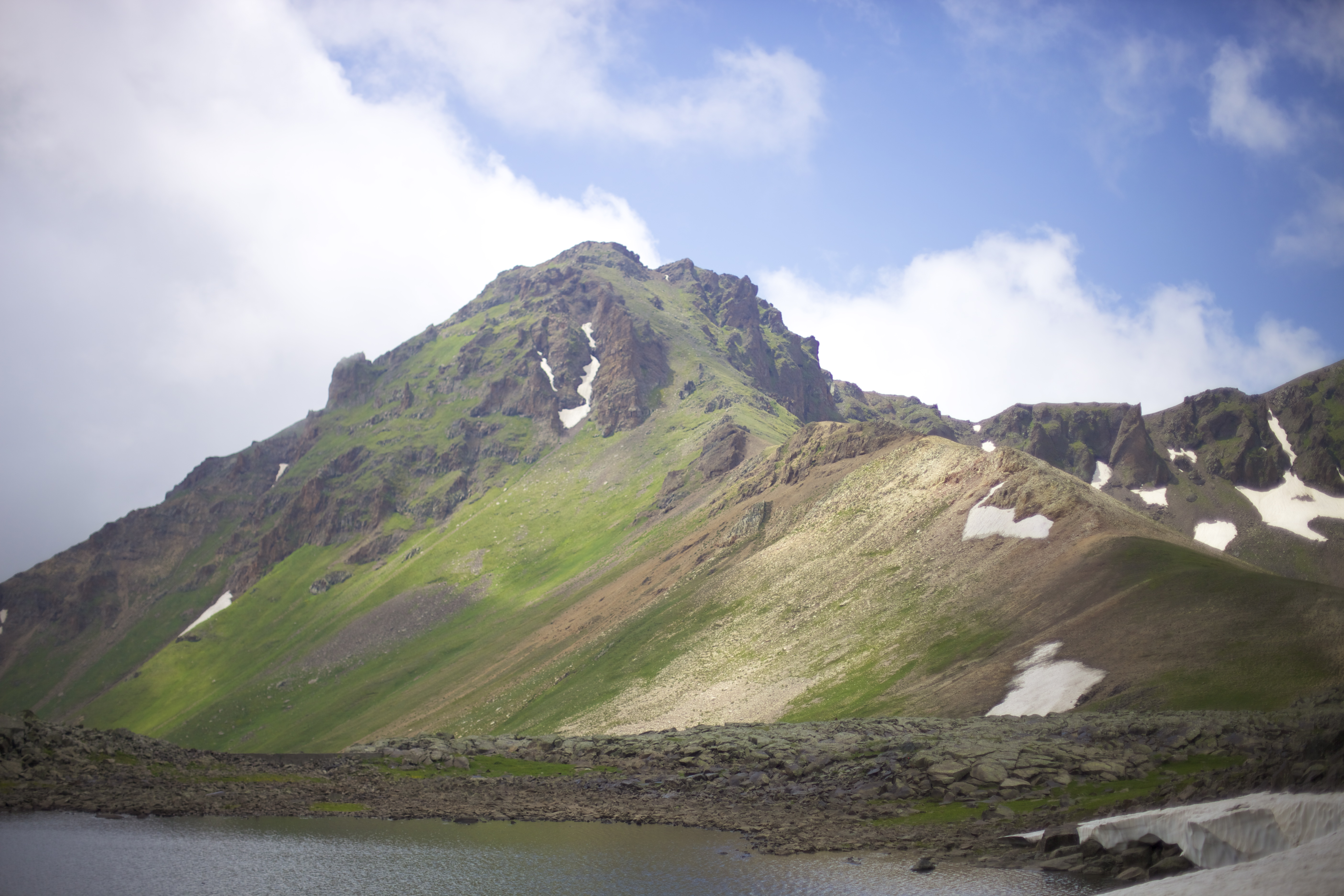 Zangezur mountains, Sisian, Armenia